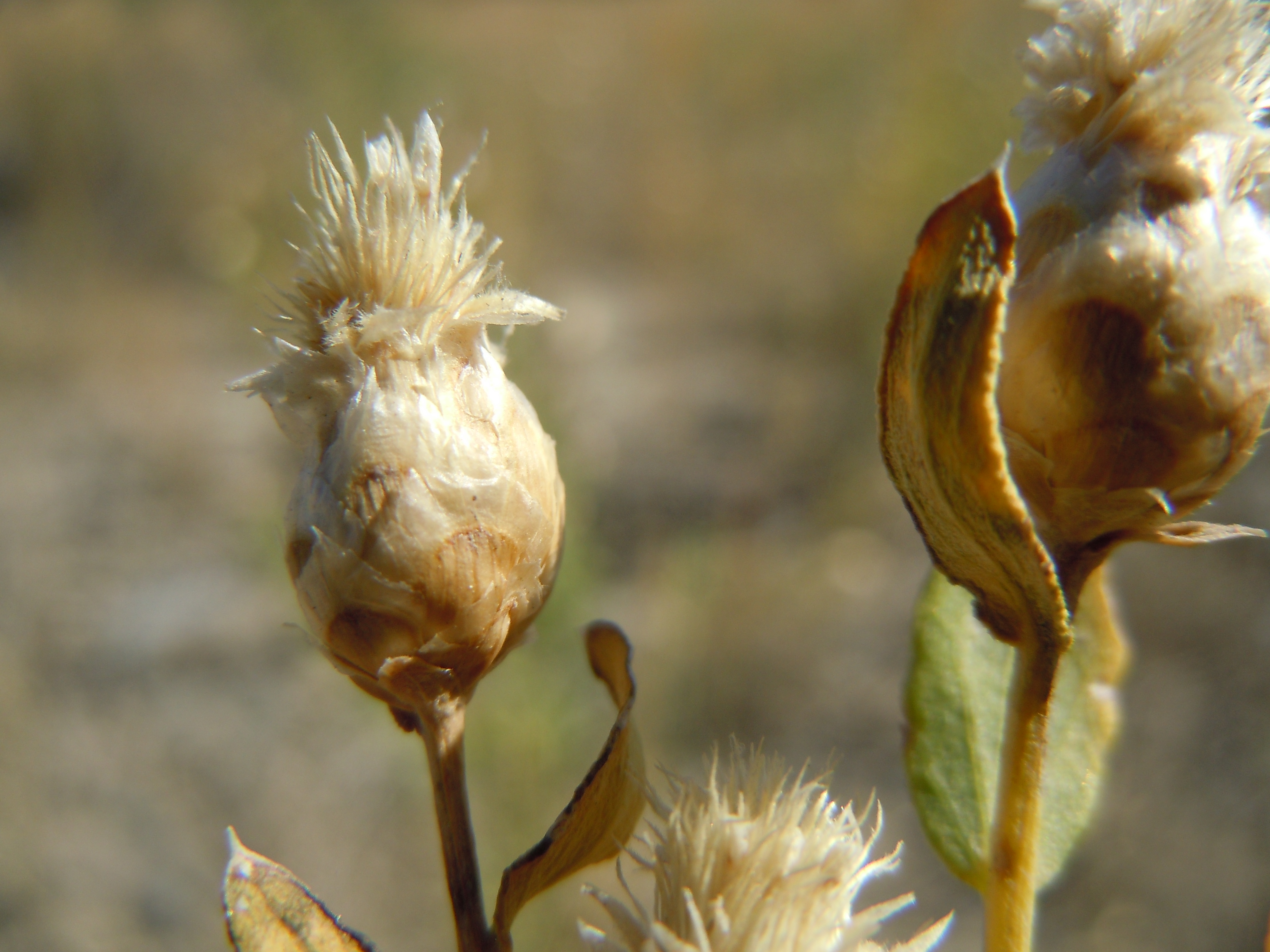 The broad papery involucral bracts and the long pappus segments are characteristic of this rhizomatous species.